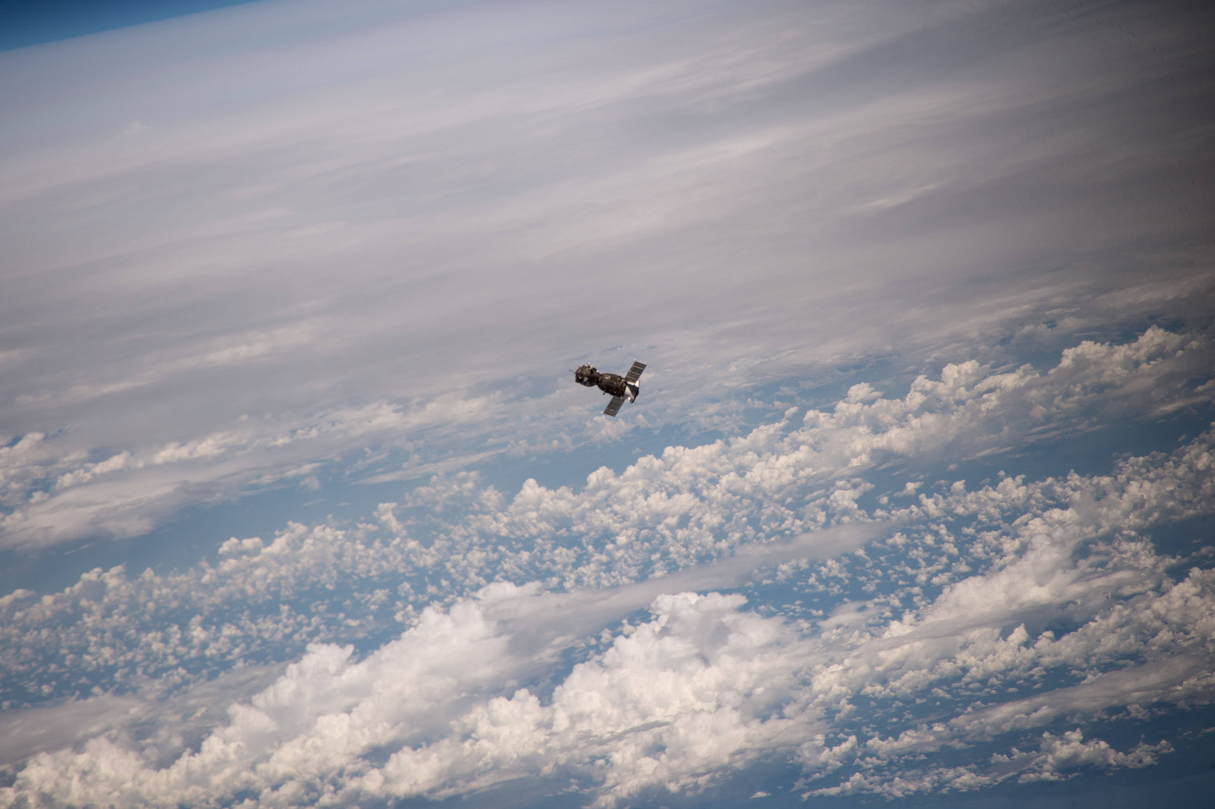 The Soyuz MS-01 spacecraft is seen during final approach to the International Space Station. The vehicle launched July 7, 2016 from the Baikonur Cosmodrome with Expedition 48-49 crewmembers Kate Rubins of NASA, Anatoly Ivanishin of Roscosmos and Takuya Onishi of the Japan Aerospace Exploration Agency (JAXA) onboard.